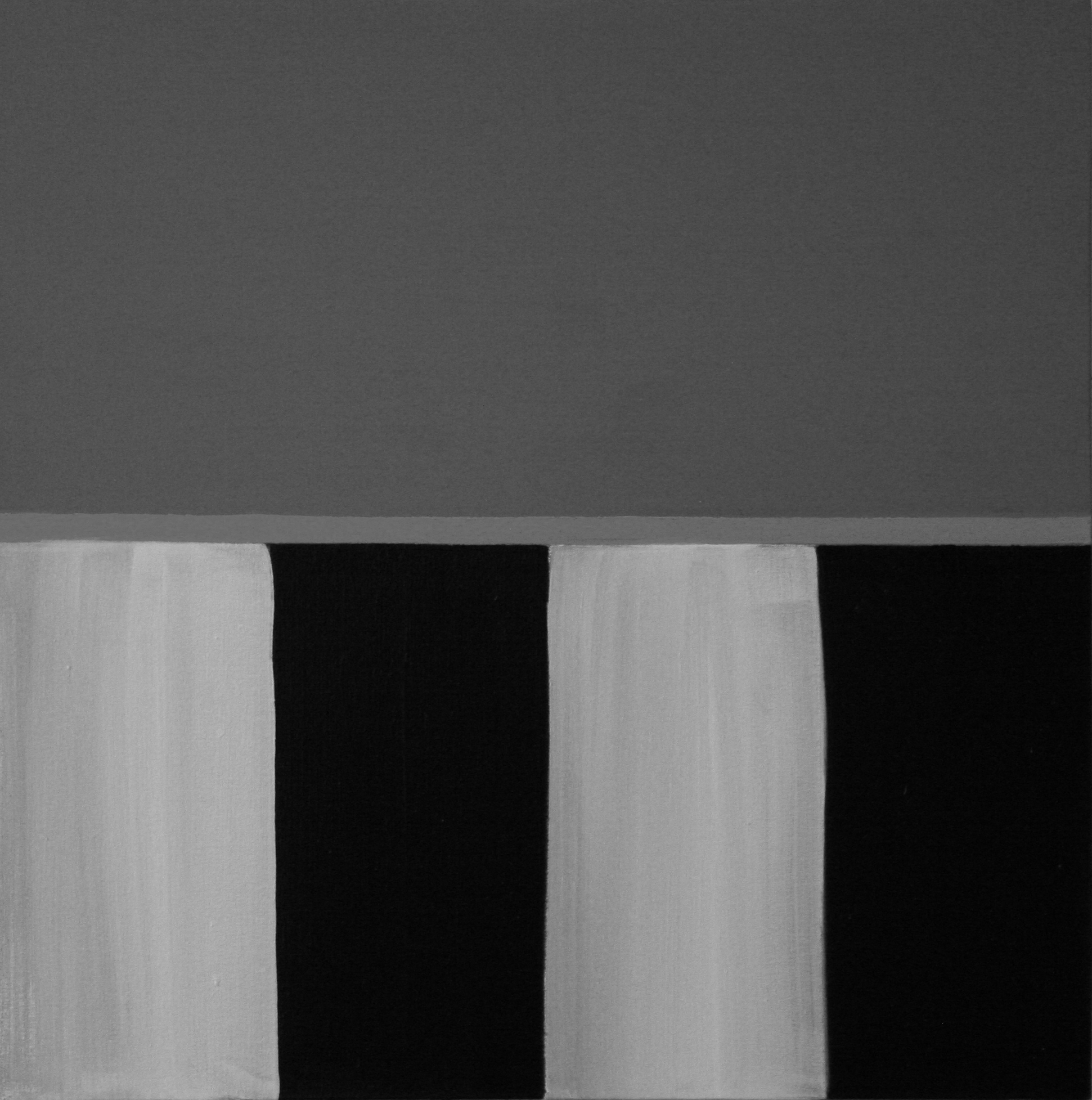 Oil on Canvas. 31"x31"